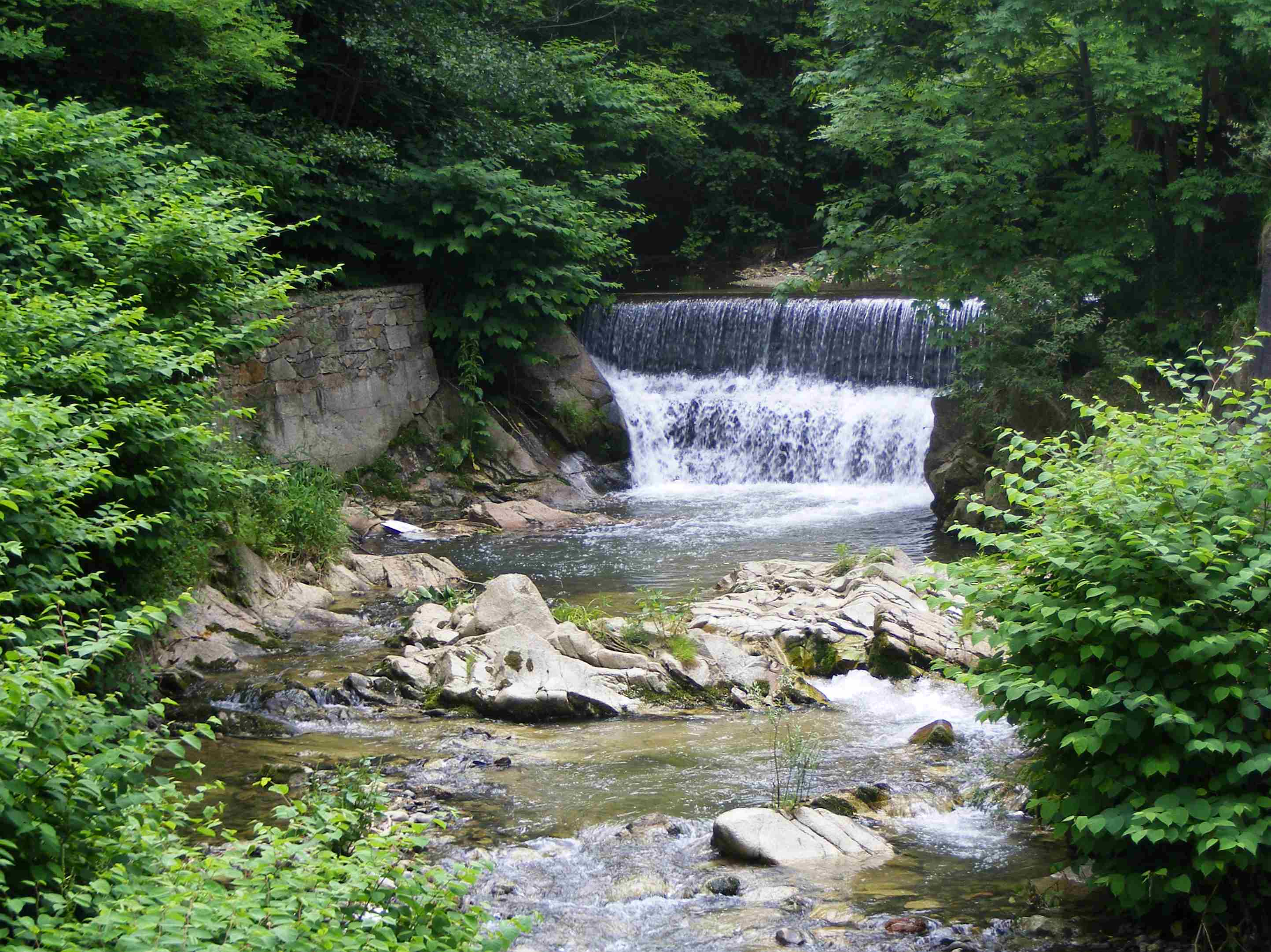 Ponzone creek (BI, Italy)